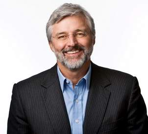 Zach Nelson headshot